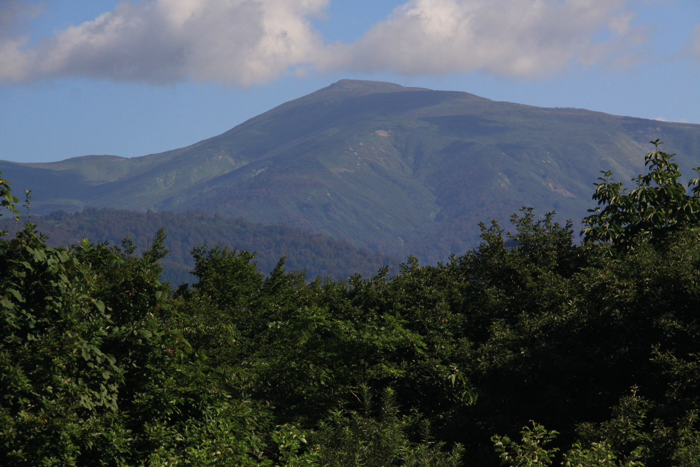 Gassan seen from the South. Taken at Yamagata Expressway's Gassanko rest area.